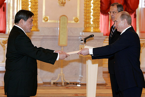 ST ALEXANDER HALL, GRAND KREMLIN PALACE. Ceremony for the presentation by foreign ambassadors of their letters of credentials. Ambassador of the Kingdom of Thailand Supot Thirakaosal presents his letter of credentials. In the background is Russian Foreign Minister Sergei Lavrov.